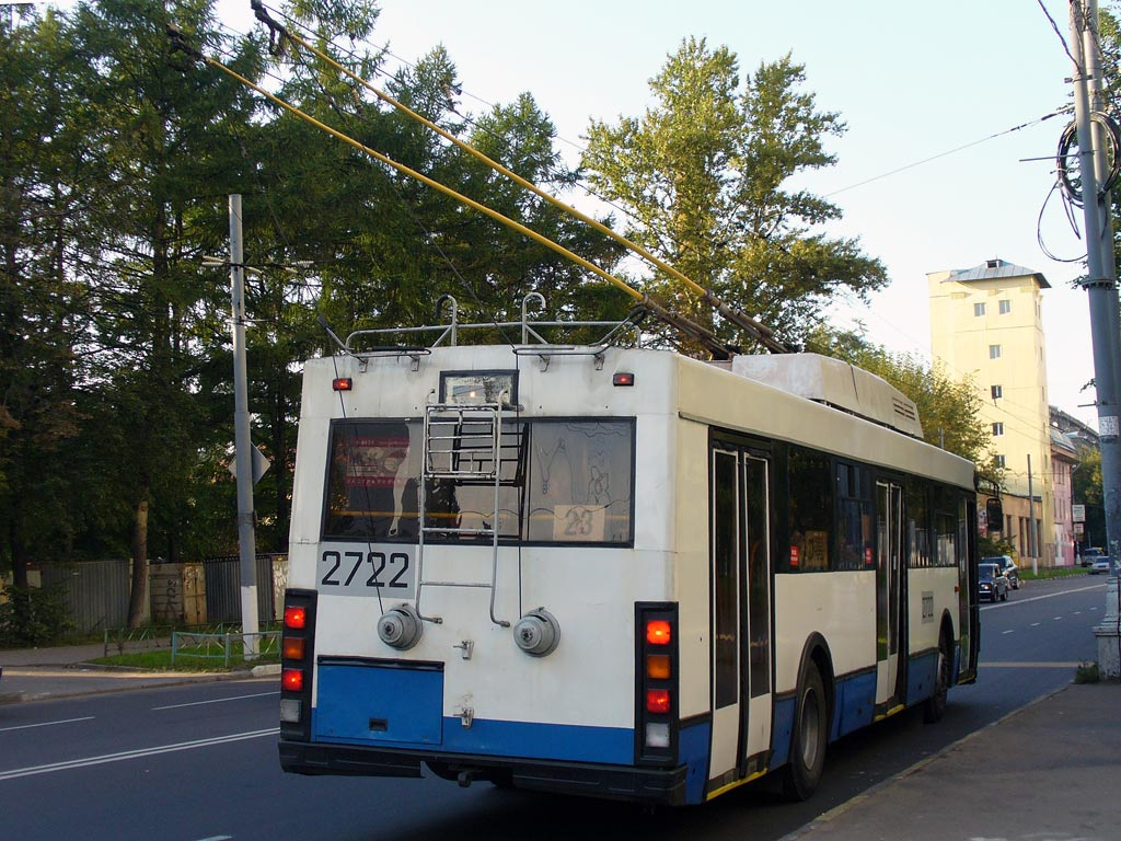 Moscow, trolleybus TrolZa-527500 #2722, 9-th Parkovaya street.